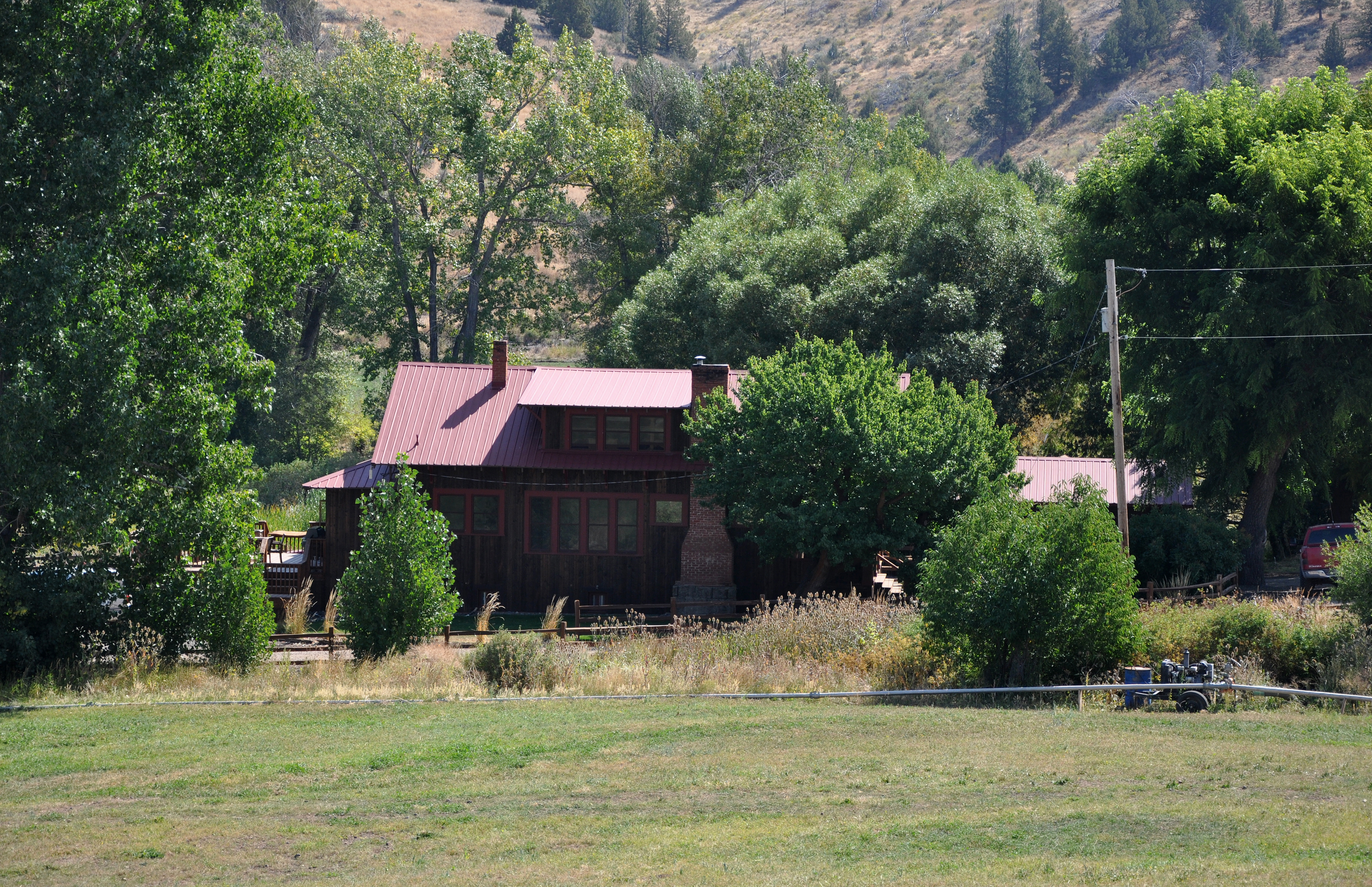 Ranch house at the site of the historical community of Antone in the U.S. state of Oregon.